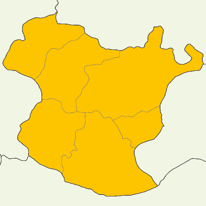 Gümüşhane'de 2014 Türkiye cumhurbaşkanlığı seçimi sonuçları